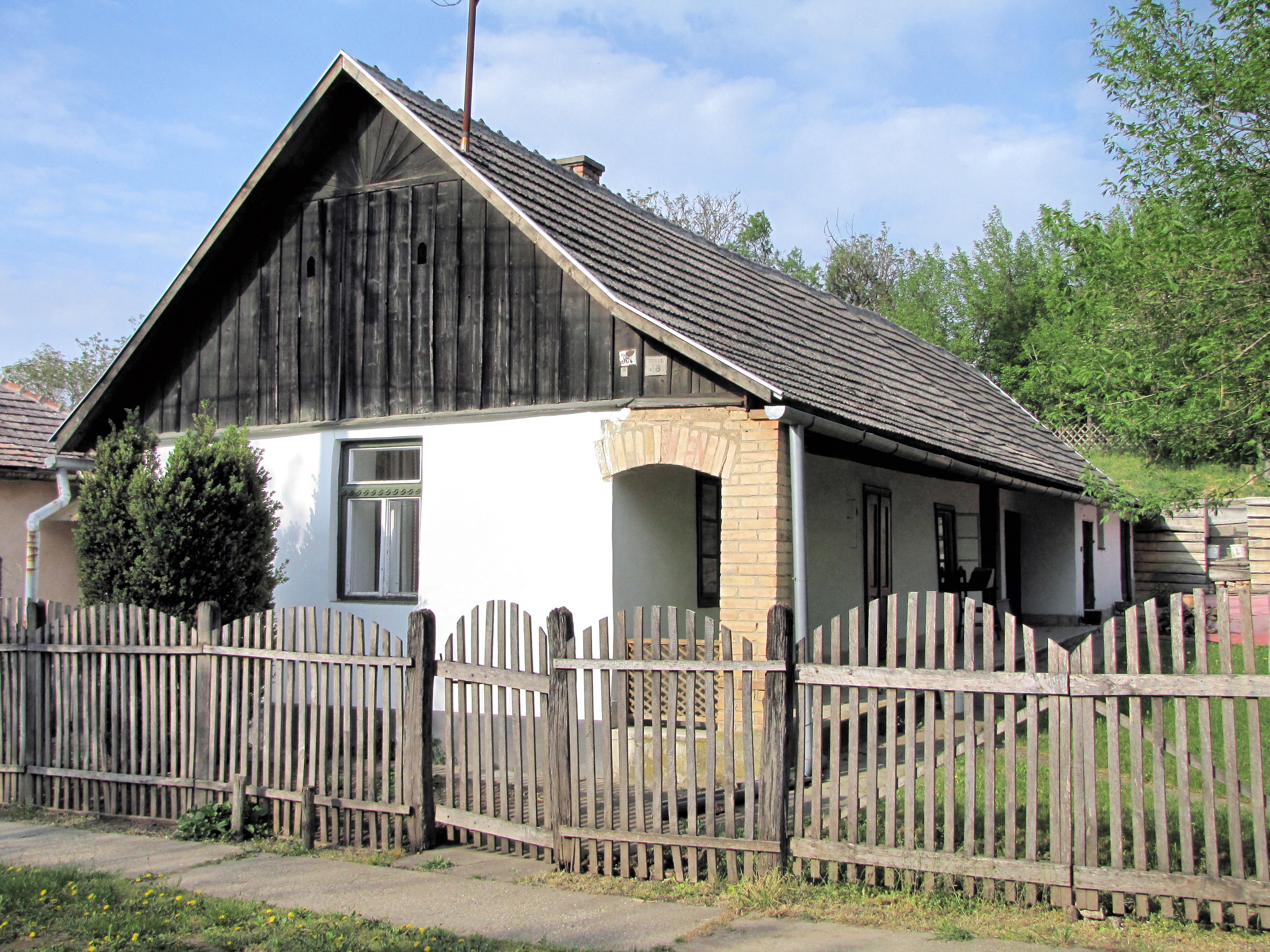 Traditional residental building, Előszállás, Fejér county, Hungary. An example of the vernacular architecture from the beginning of the 20th Century.